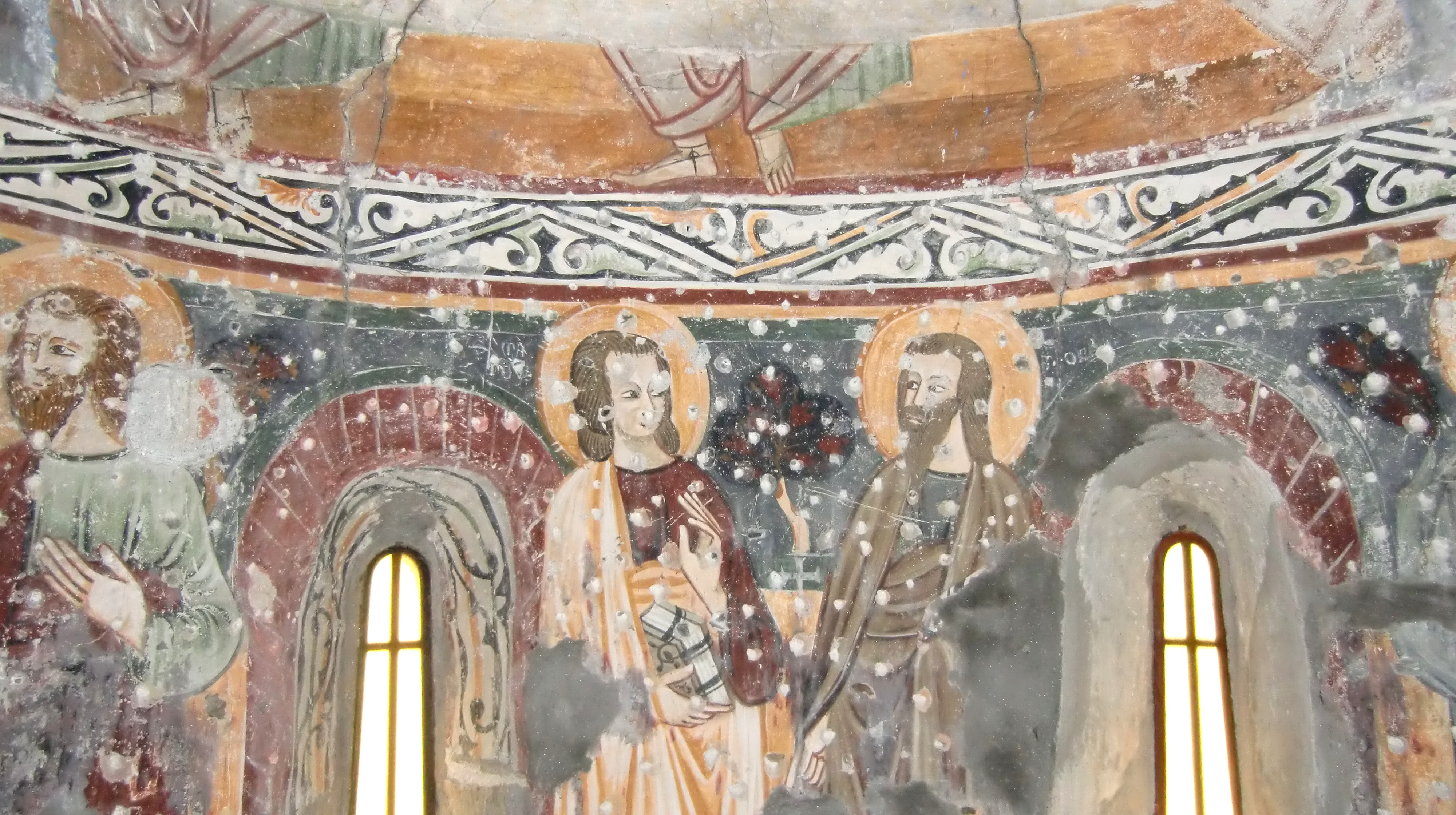 Villadossola, Chiesa della Beata Vergine Assunta del Piaggio, Apostles, fresco, end of XII century